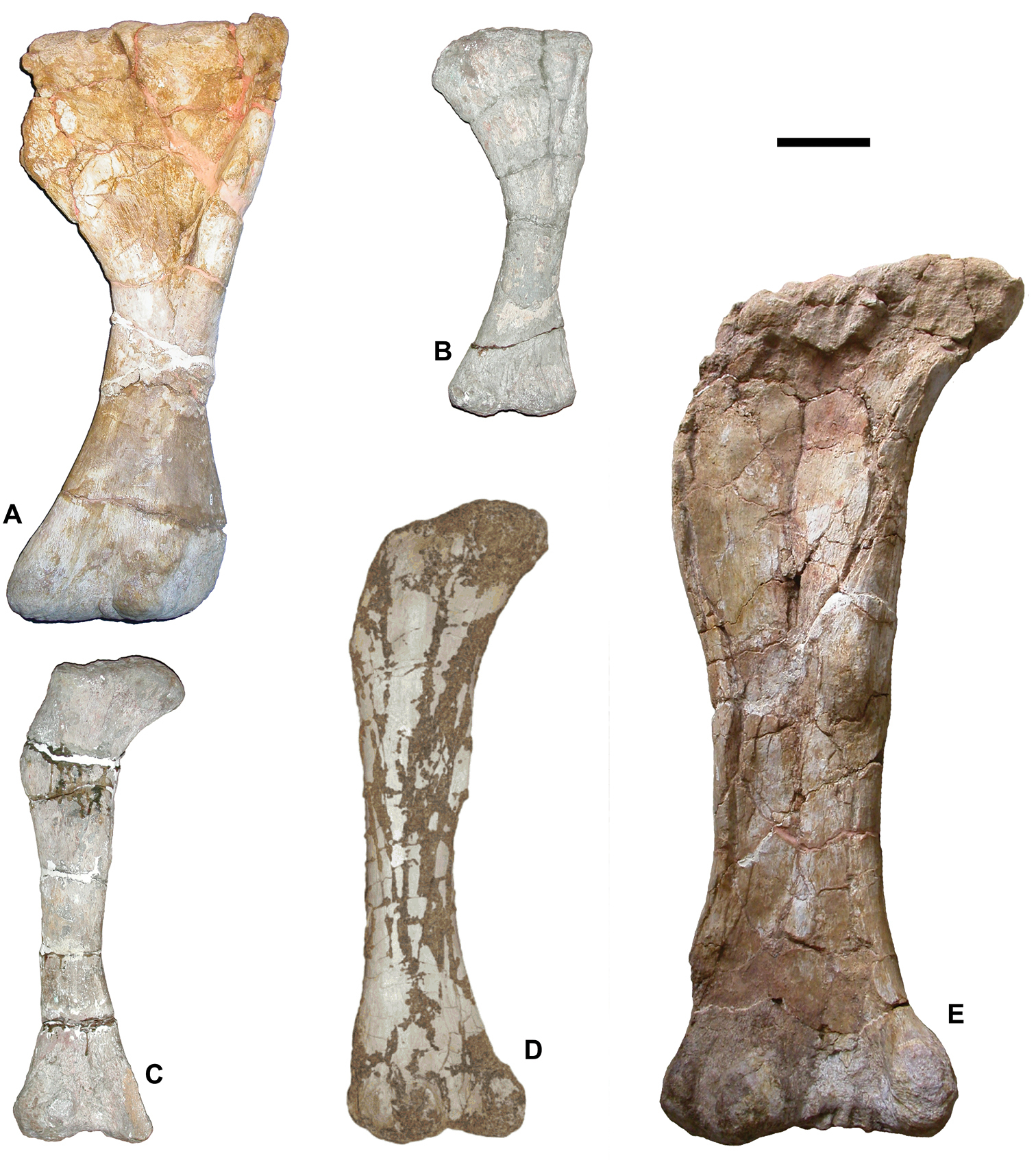 Body-size disparity in Late Cretaceous European titanosaurs, as illustrated by their appendicular elements (specimens figured at scale). A, E Ampelosaurus atacis (late Campanian–early Maastrichtian, Bellevue, Aude, southern France): A Left humerus (MDE C3-86), anterior view E Right femur (MDE C3-87; reversed), posterior view B, C Magyarosaurus dacus (early Maastrichtian, Ciula Mare, Haţeg Basin, Romania) B Left humerus (LPB (FGGUB) R.1047), anterior view C Left femur (LPB (FGGUB) R.1046), posterior view D Lirainosaurus astibiai (late Campanian–early Maastrichtian, Laño, Basque Country, northern Spain), left femur (MCNA 7468), posterior view. Scale bar equals 10 cm. Photograph D courtesy by Verónica Díez Díaz.